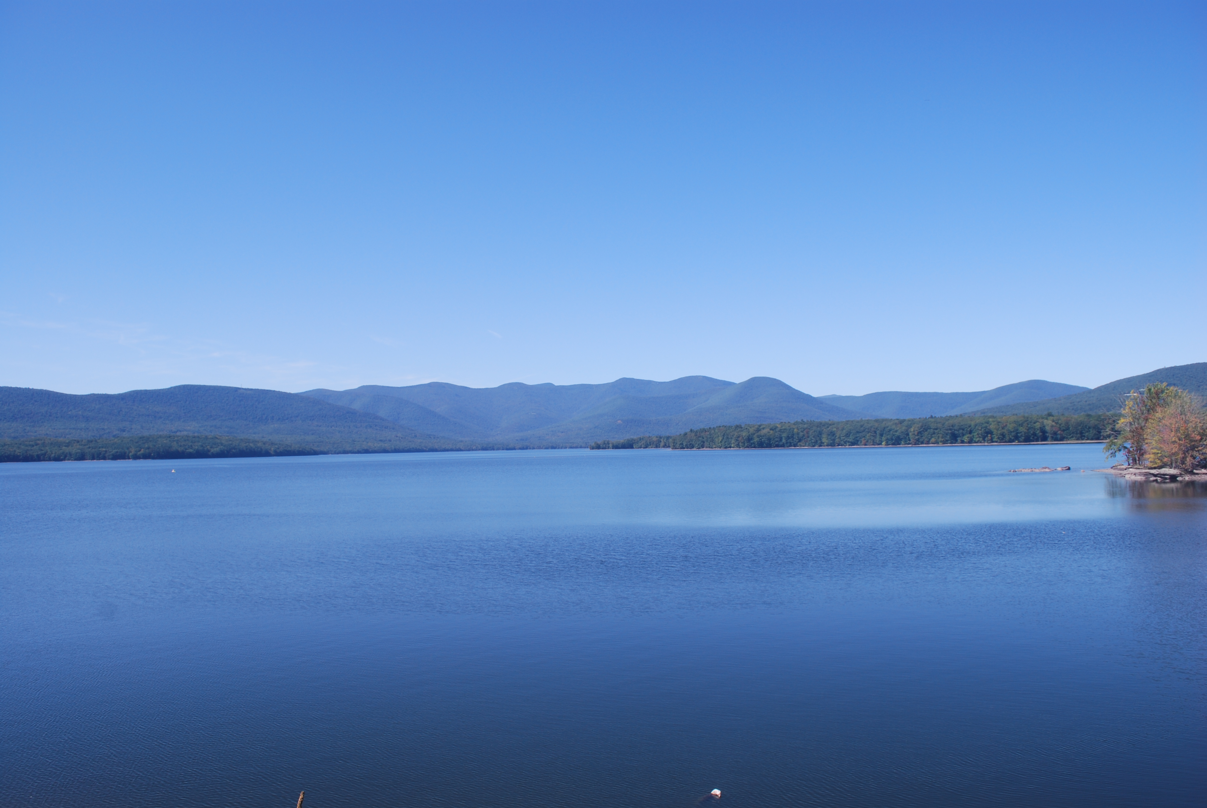 The Ashoken Reservoir seen from Monument Road in Ulster County, New York, USA